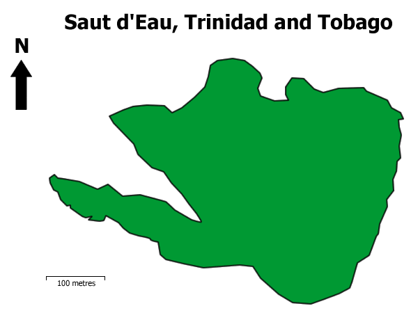 Drawn map of Saut d'Eau island in Trinidad and Tobago